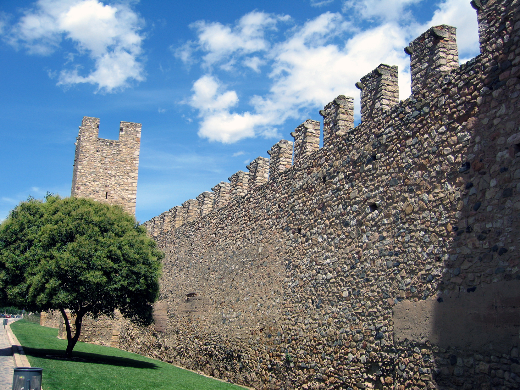 City wall of Montblanc in the province of Tarragona (Catalonia).